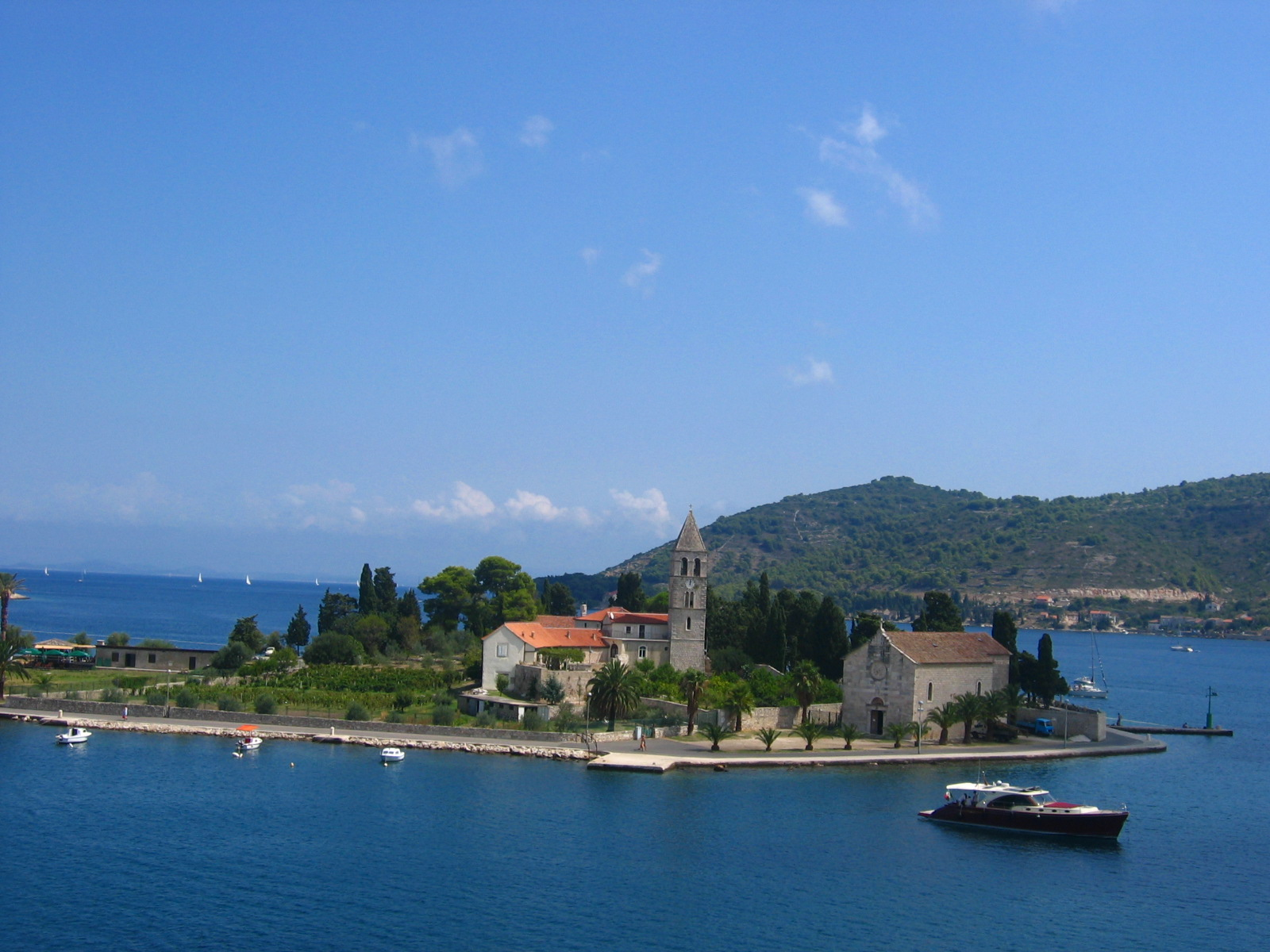 Prirovo peninsula, Vis Bay, Croatia